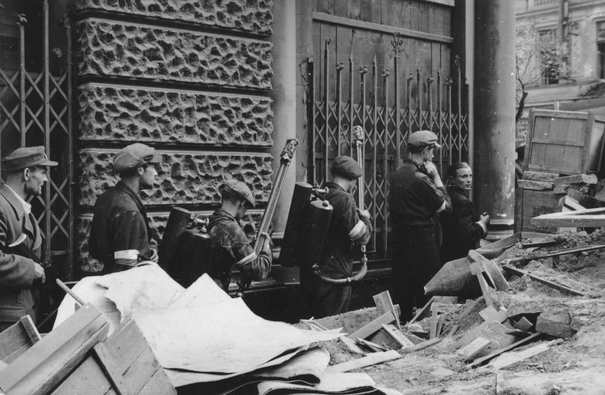 WarsawUprising: Group of insurgents from kompania "Koszta" with flame throwers in front of "Ulrich's" store at 11 Moniuszki Street, corner of 128 Marszałkowska Street.